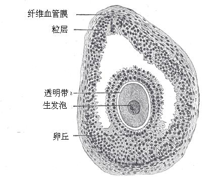 Section of vesicular ovarian follicle of cat. X 50.